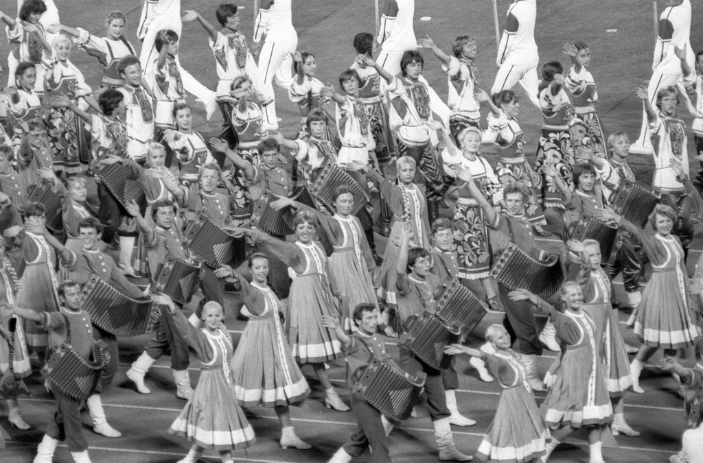 “22nd Olympics closing gala”. The 22nd Olympics closing gala in Moscow, 1980.